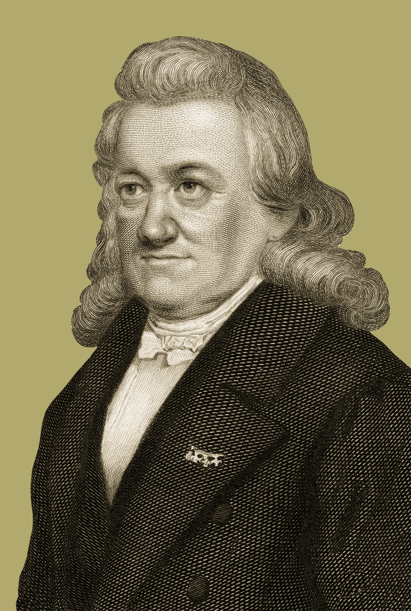 Friedrich Schneider, steel engraving at 1855 by L. Sichling according to a portrait by G. Völkerling (1852)